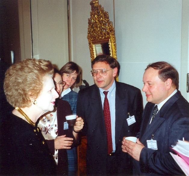 Thatcher and Gaidar in Prague Margaret Thatcher, Therese Raphael of the Wall Street Journal, Alexandra Colen, Fernand Keuleneer, and former Russian prime minister Yegor Gaidar. Photo by Paul Beliën, May 1996.